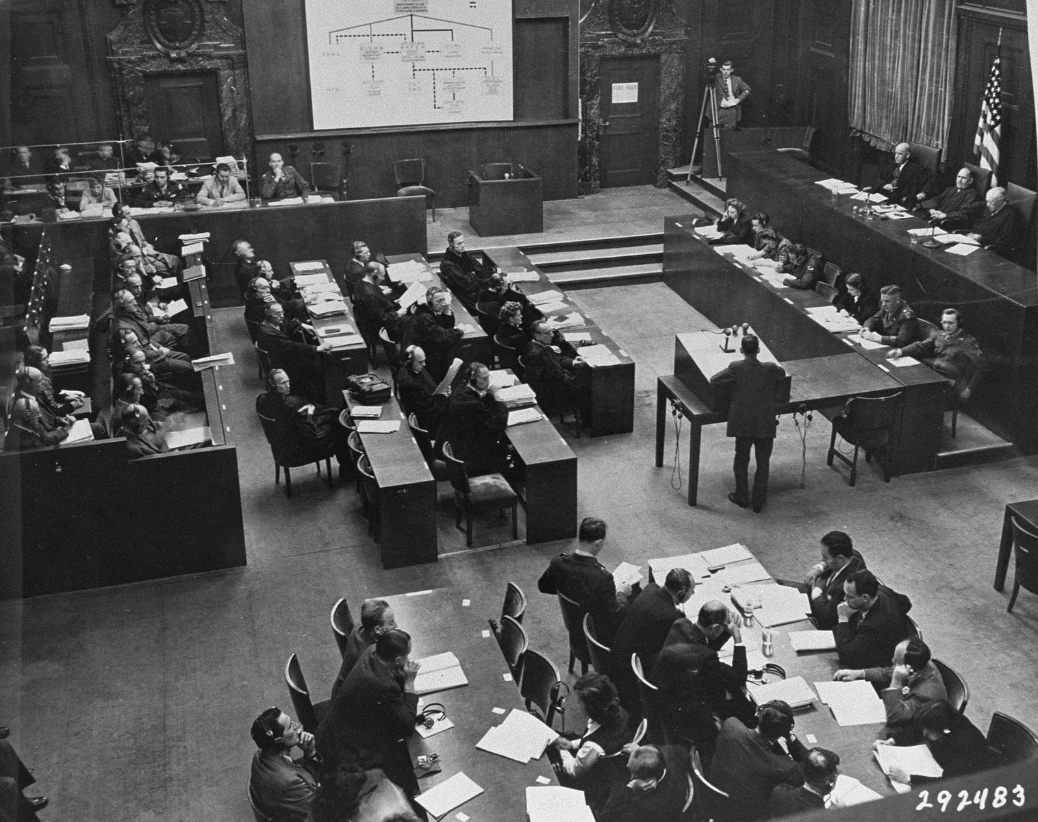 see title